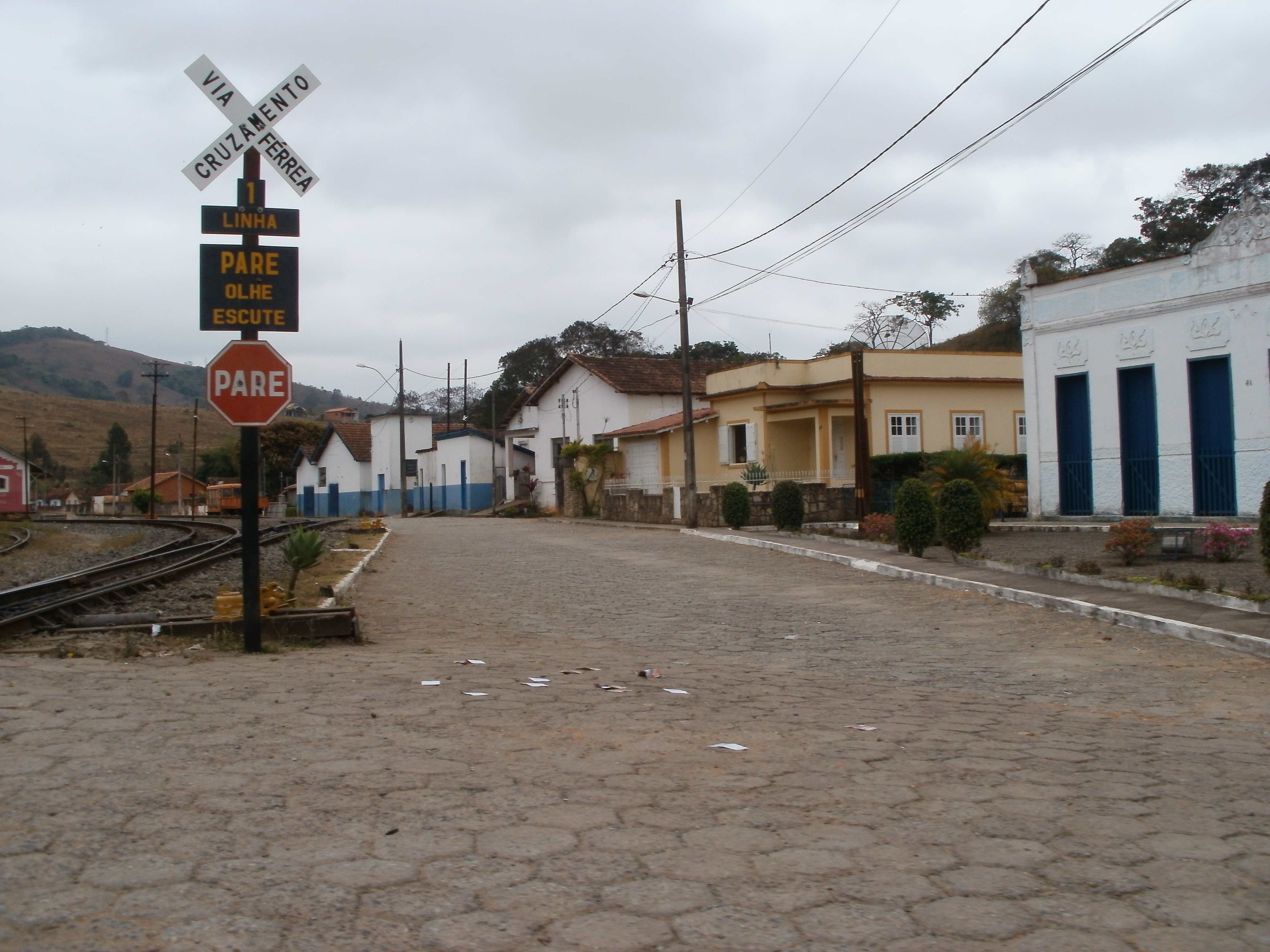 View of little houses and the Arantina's railway station, Minas Gerais, Brazil.